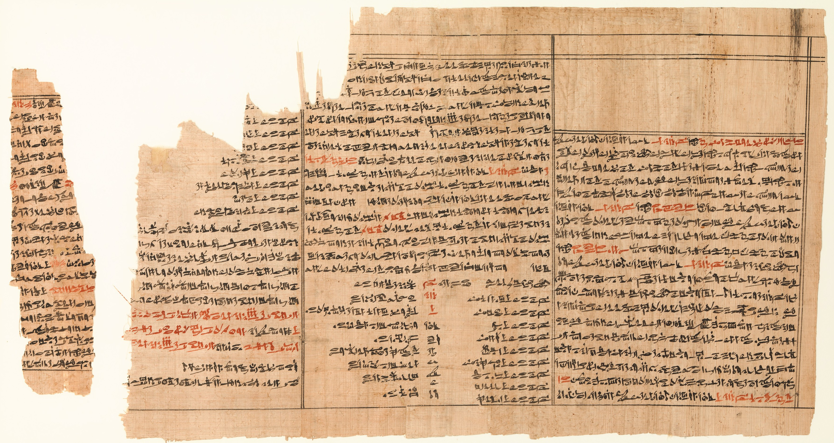 Papyrus, Book of the Dead, Khaemhor